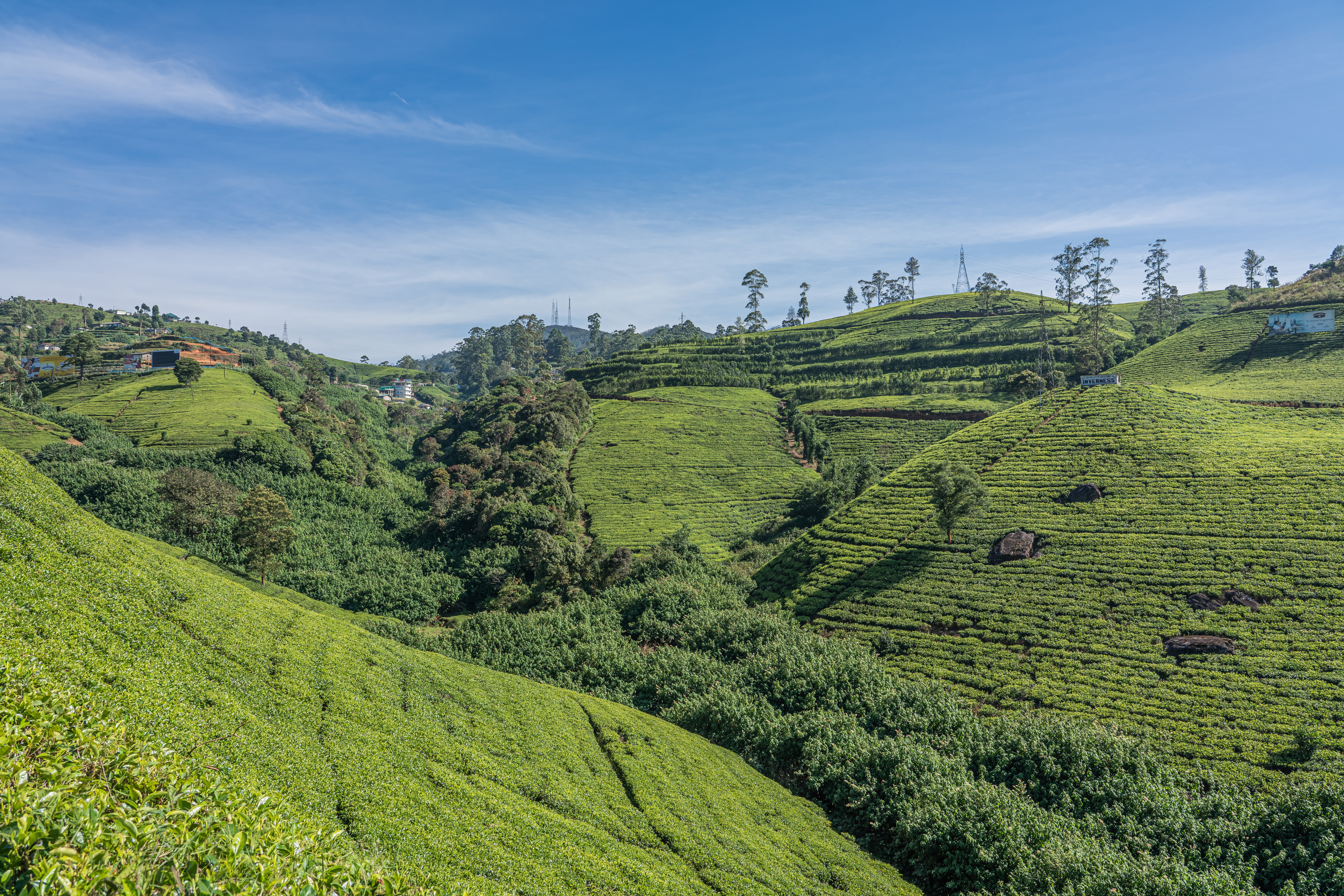 Labukele tea plantation in Nuwara Eliya District, Sri Lanka